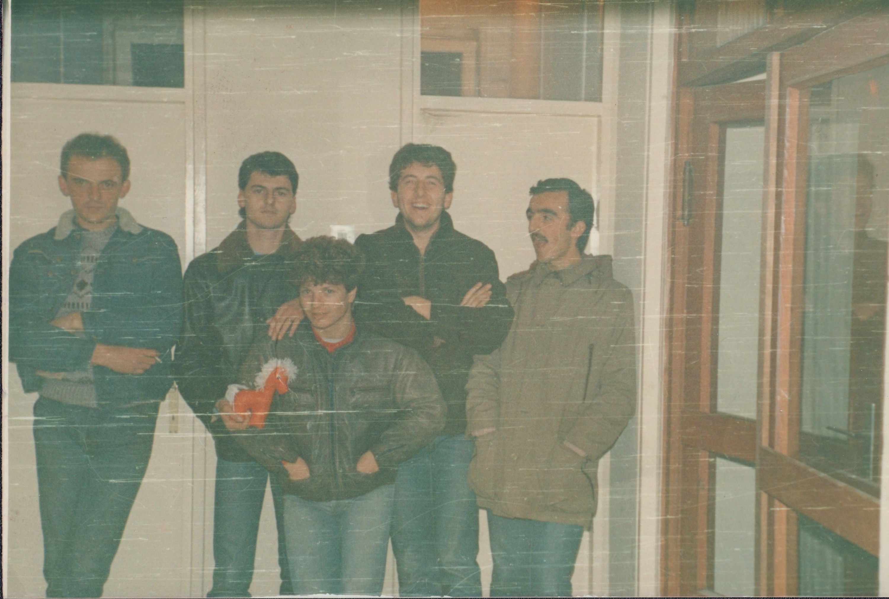 Jolly Jumper - prva postava 1984.